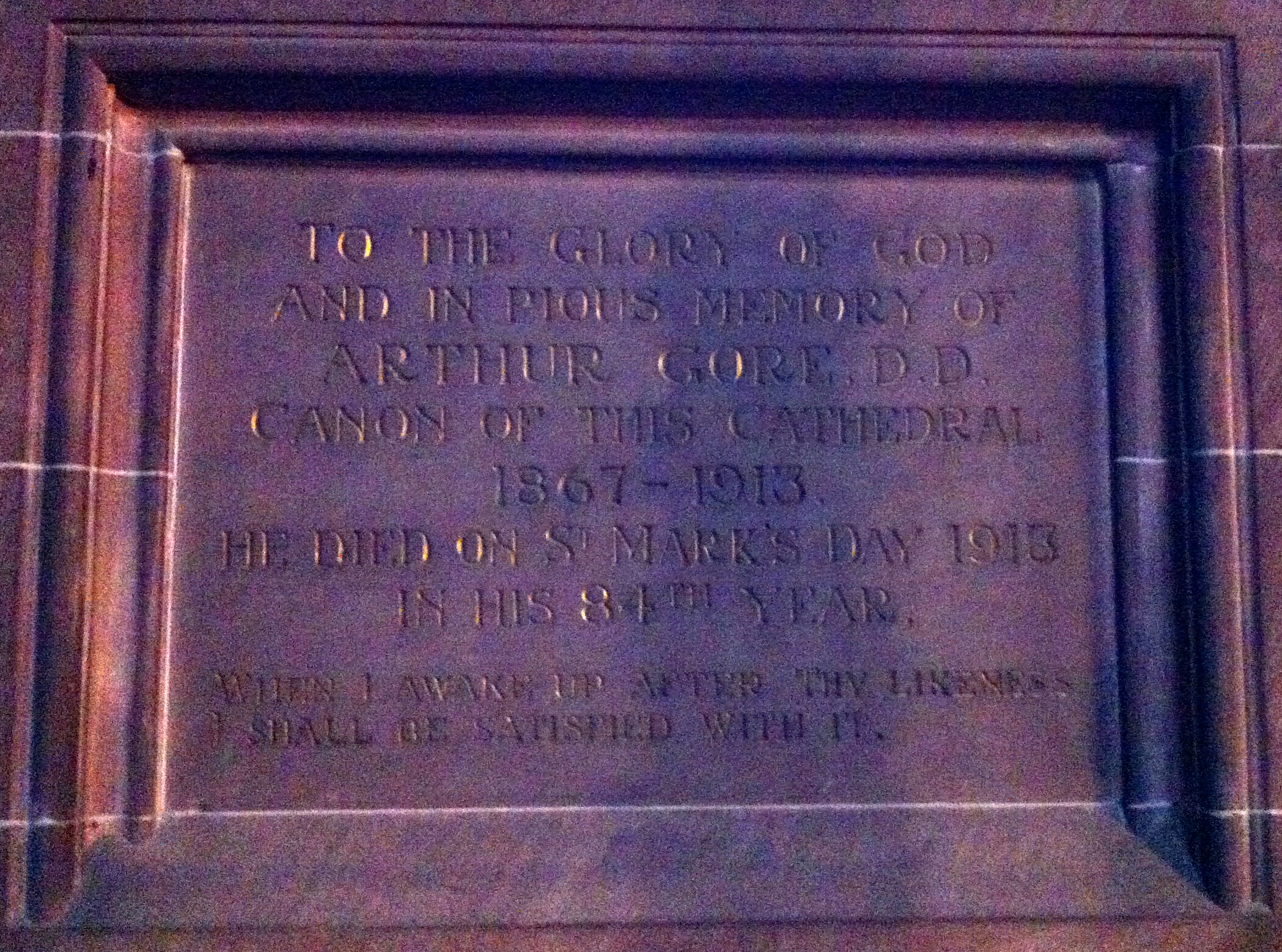 Arthur Gore DD. Canon of this Cathedral 1867 - 1913. Died St Mark's Day 1913 in his 84th year